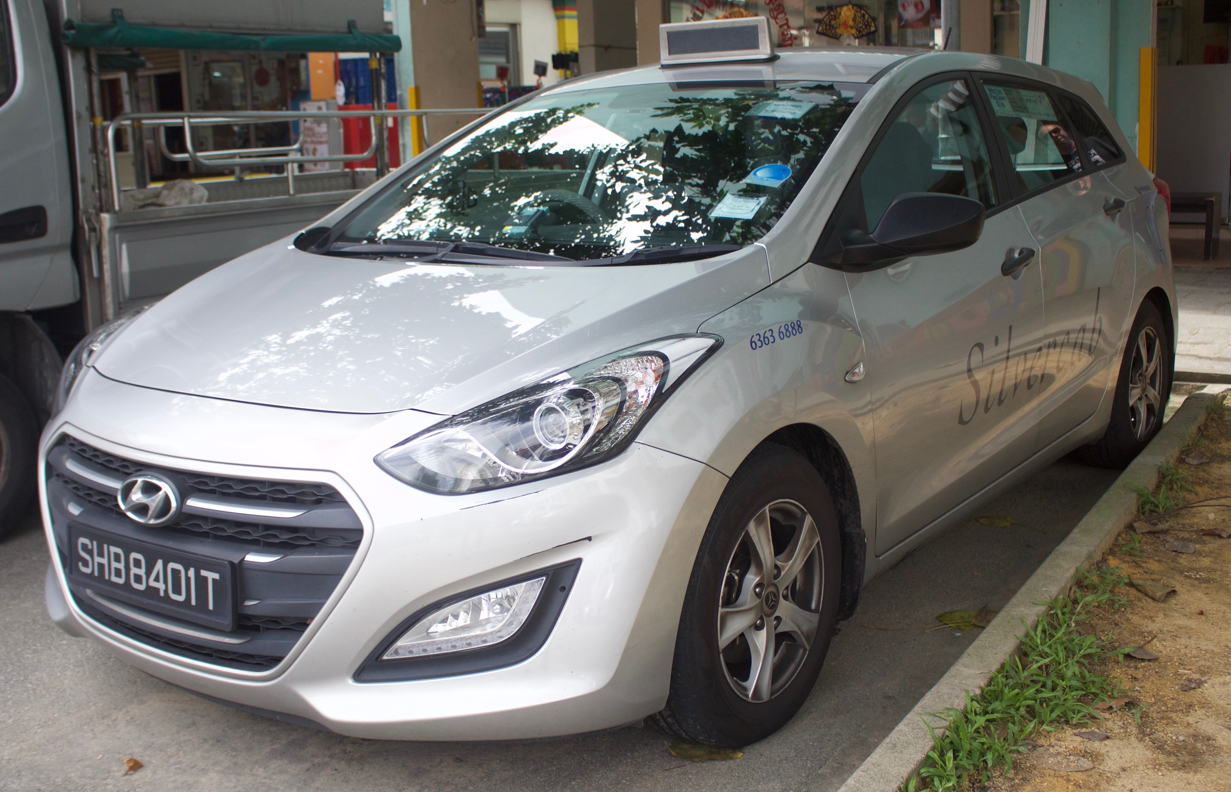 2016 Hyundai i30 (GD3 Series II) Tourer, SilverCab. Photographed in Singapore